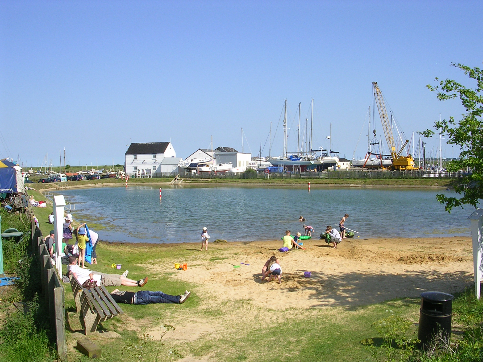 Woodup Pool in Tollesbury, Essex, England. A salt-water public bathing pool or lido.